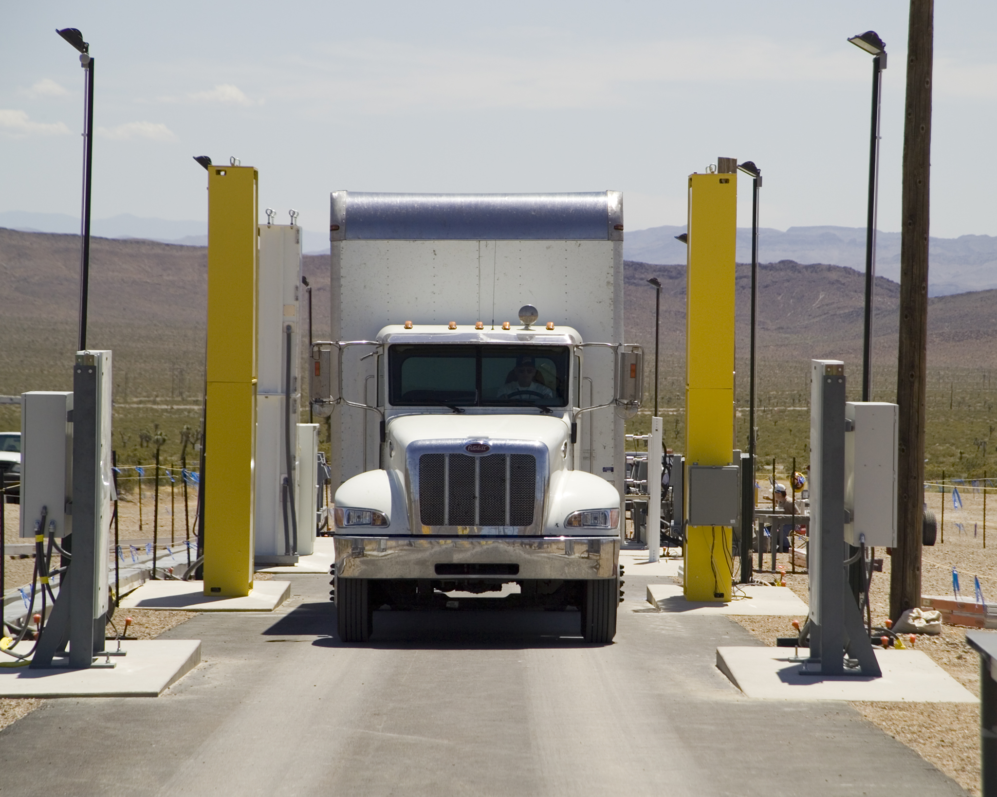 Nevada National Security Site. Radiological Nuclear Countermeasures Test and Evaluation Complex. Truck driving through the Depart of Homeland Security, Portal Monitor Test Area at the Nevada Test Site.